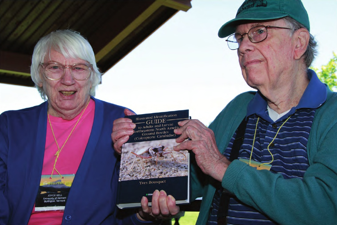 Entomologists Joyce and Ross Bell